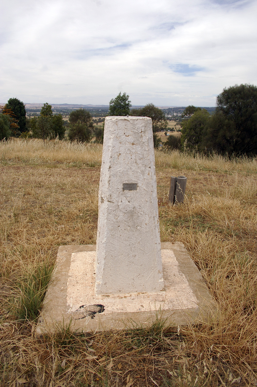 Moorong Geodetic Station put in place by the Central Mapping Authority located on top of Mount Moorong in the Pomingalarna Reserve.